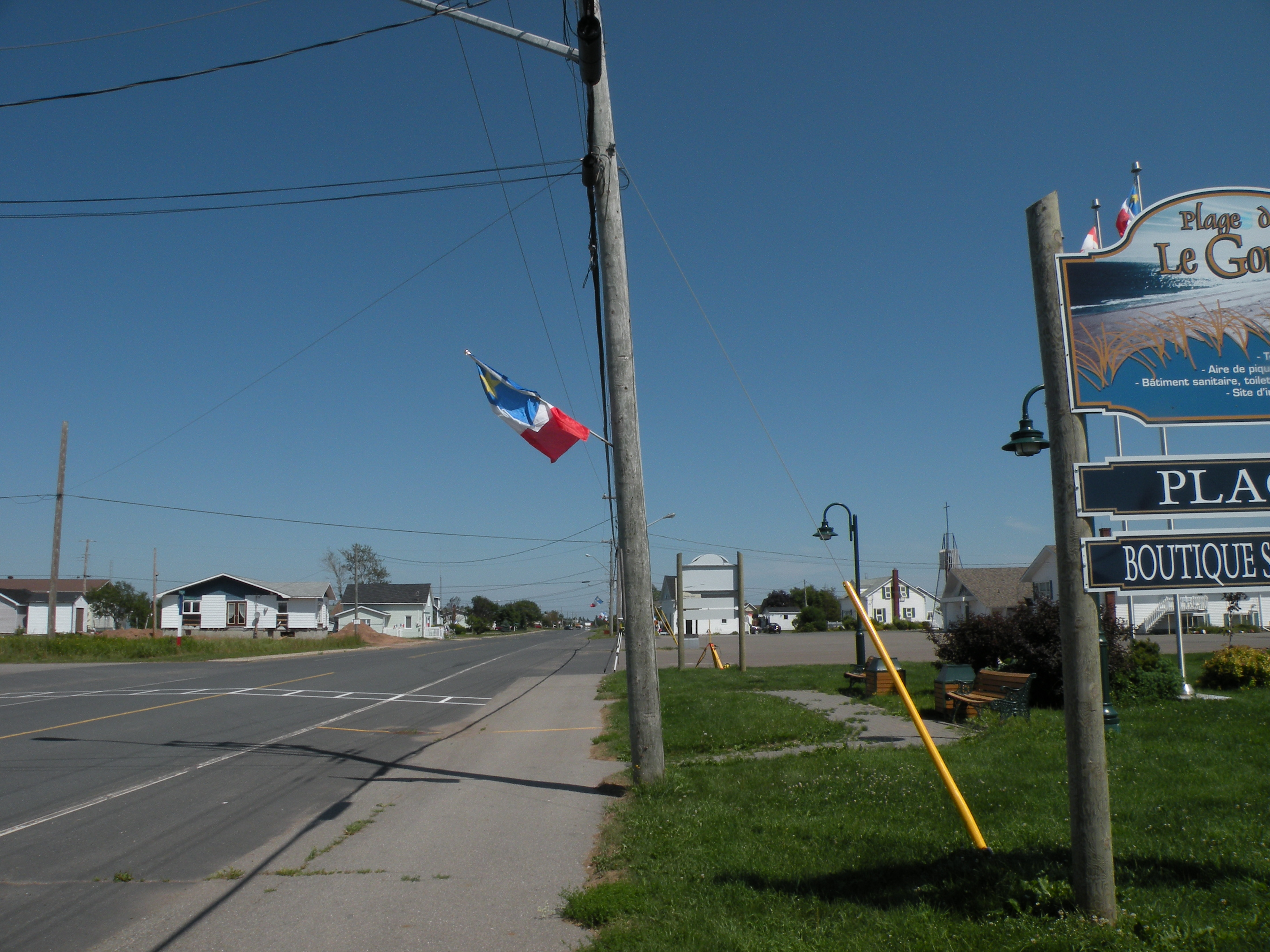 Main Street in Le Goulet, New Brunswick, Canada.